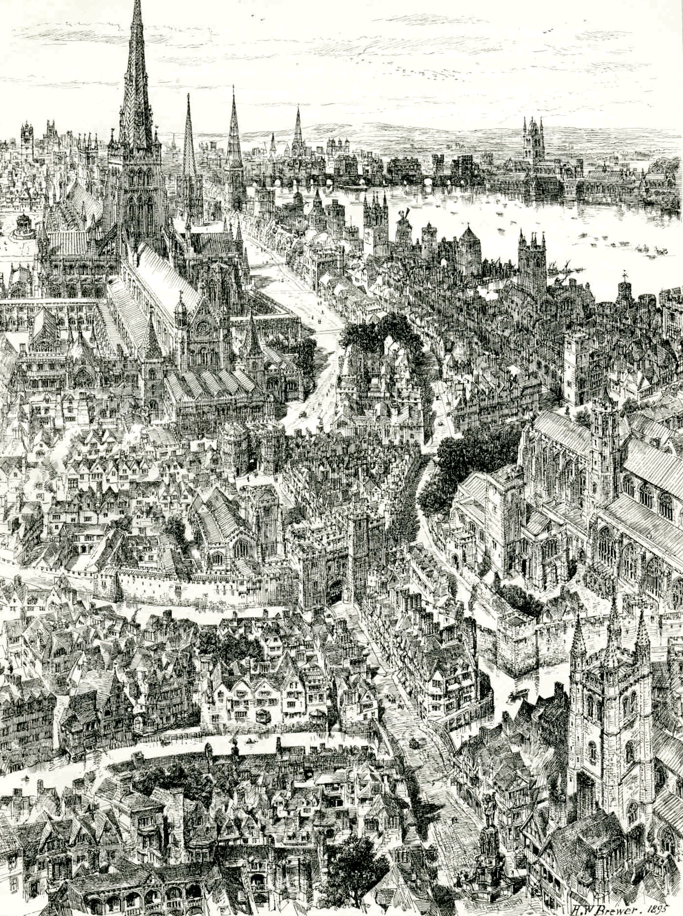 1895 reconstruction of 16th century London